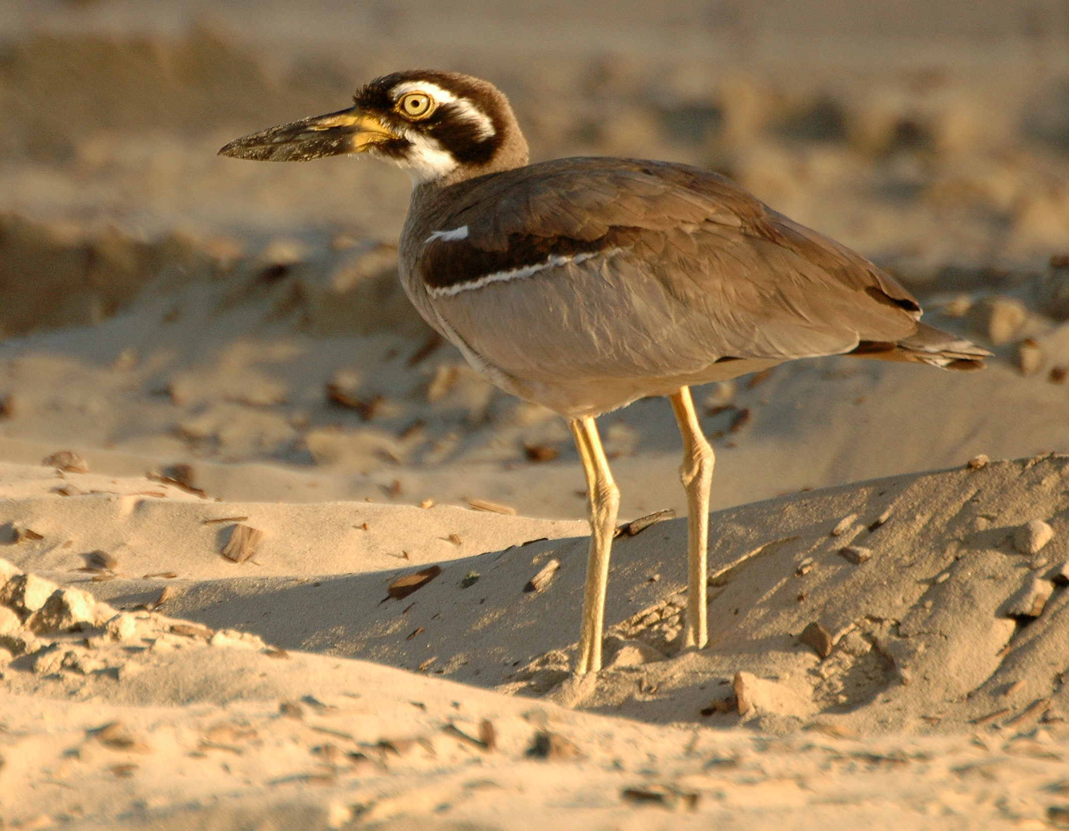 Beach Thick-knee (Esacus giganteus) Inskip Point, SE Queensland, Australia